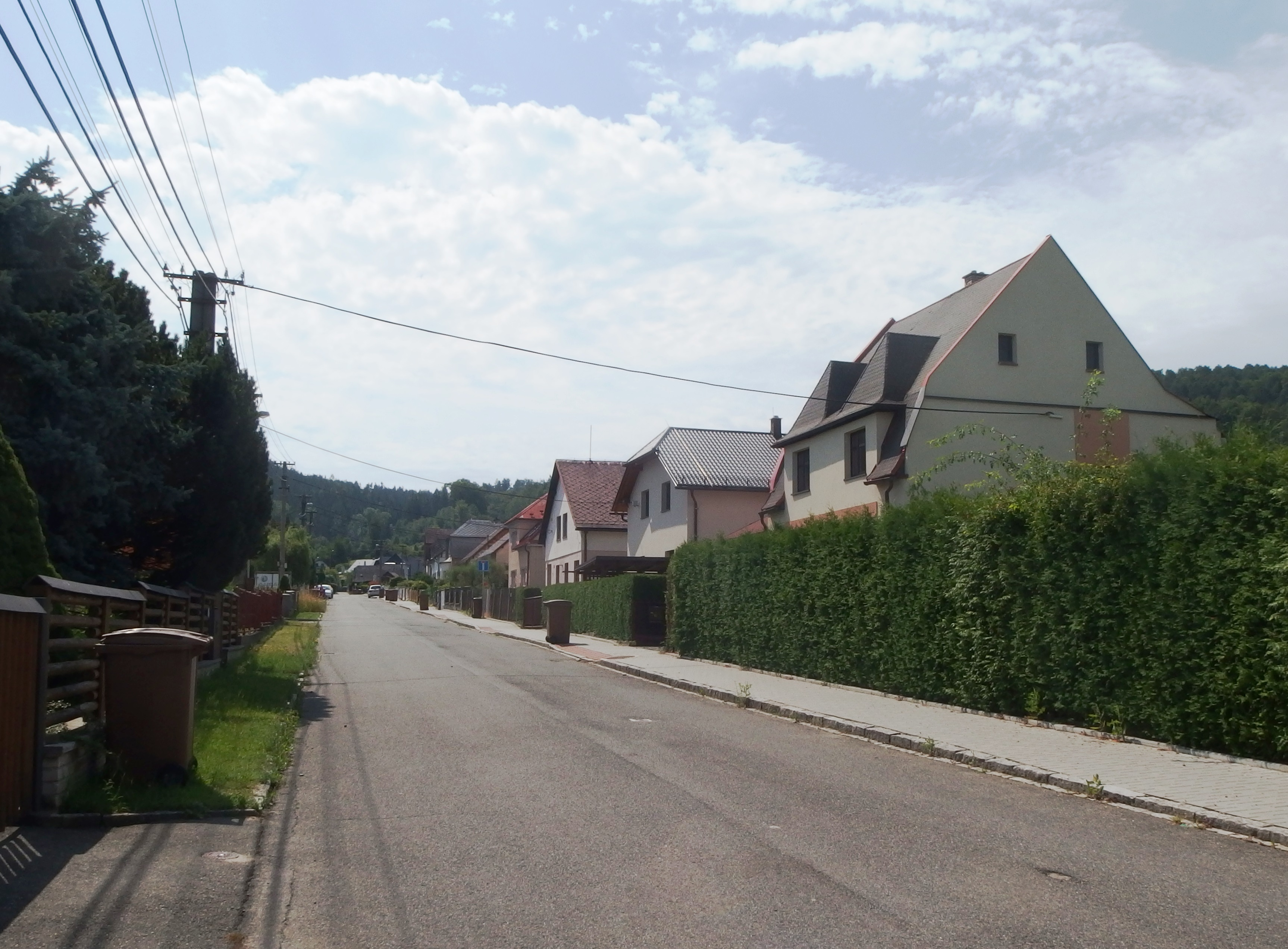 Dolní Studénky, Šumperk District, Czechia, part Králec.